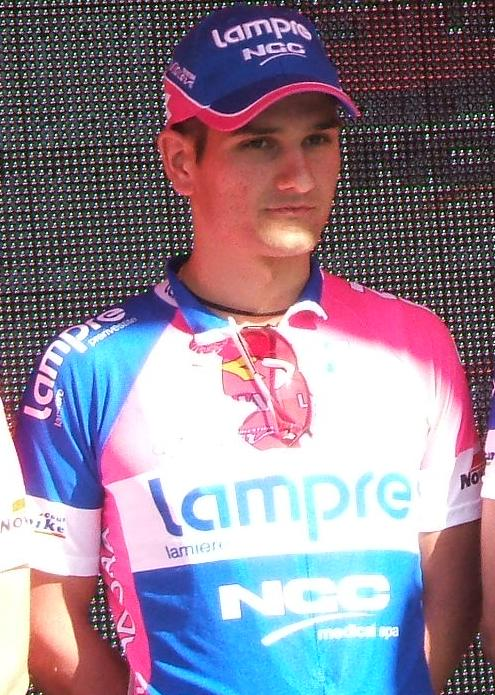 Named cyclist at the en:2009 Tour Down Under team presentation